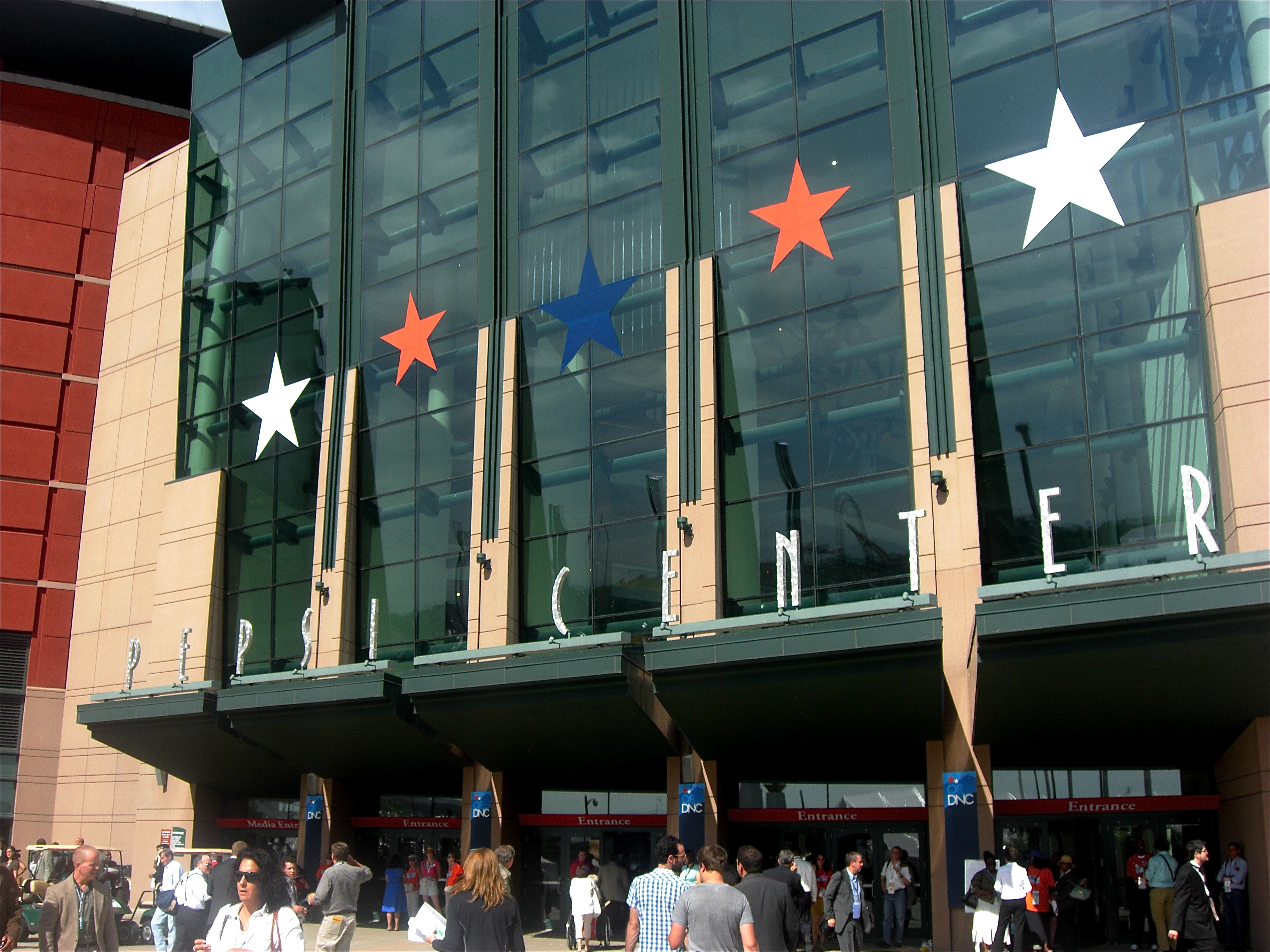 The Pepsi Center in Denver, Colorado as it appeared during the third day of the 2008 Democratic National Convention.